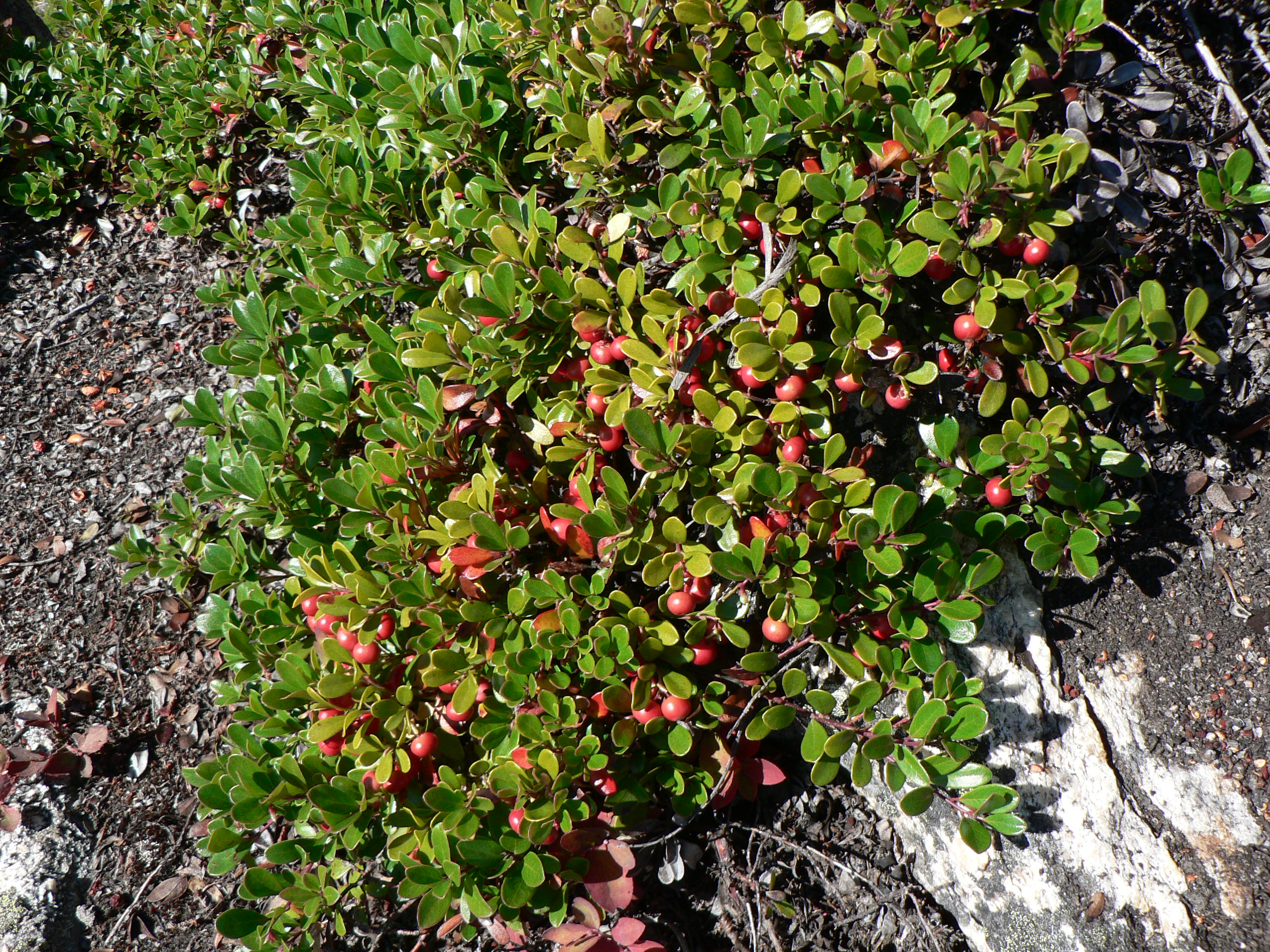 Kinnikinnick